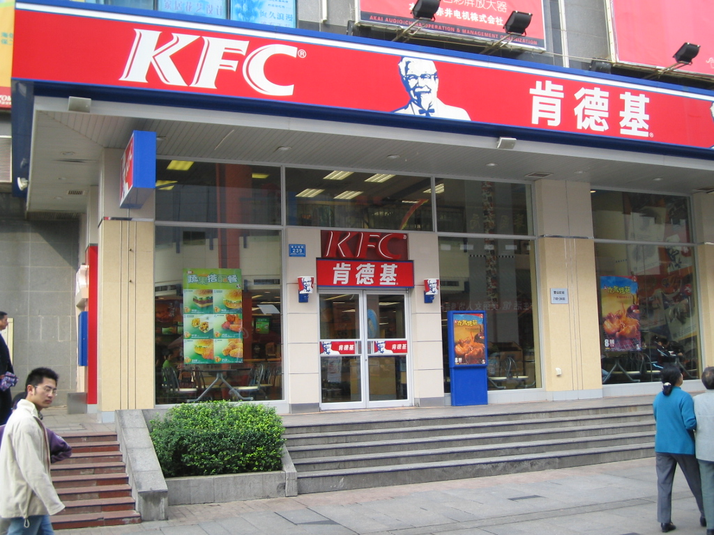 KFC in Changsha, China